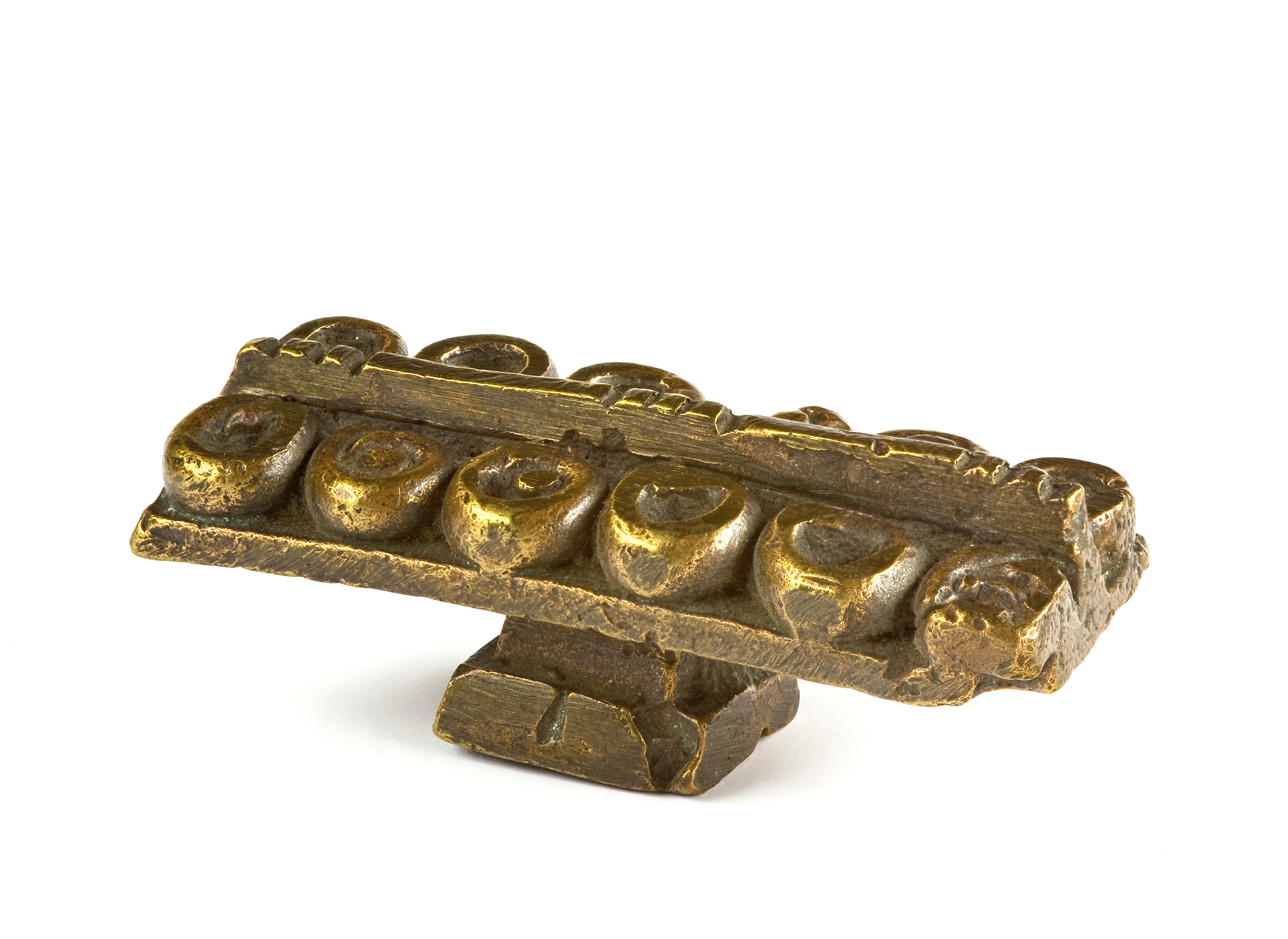 Figurative weight Awele or Awari game size : 1,5 x 4 x 1,6 cm mass : 25,6 g material : Brass technique : Lost-wax casting